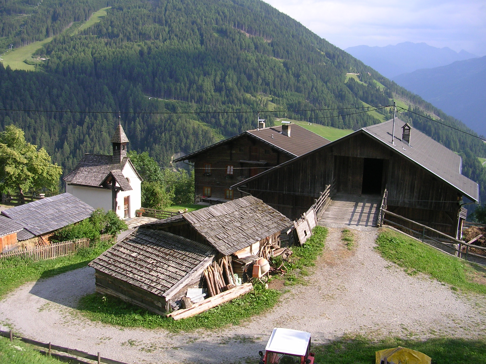 Glanz 8 (Lacknerhof) mit dem Lackner Kirchlein This media shows the remarkable cultural object in the Austrian state of Tyrol listed by the Tyrolean Art Cadastre with the ID 17117. (on tirisMaps, pdf, more images on Commons, Wikidata) This media shows the remarkable cultural object in the Austrian state of Tyrol listed by the Tyrolean Art Cadastre with the ID 17118. (on tirisMaps, pdf, more images on Commons, Wikidata)